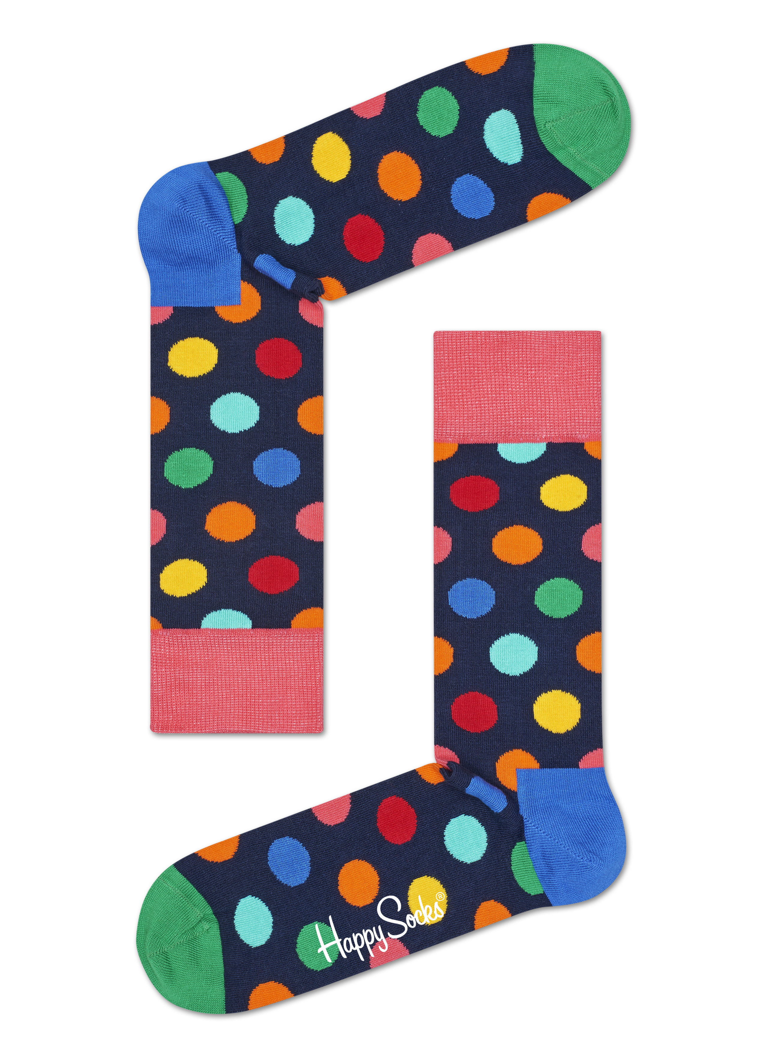 Photography of iconic Happy Socks Dot socks taken by Johnny Wohlin